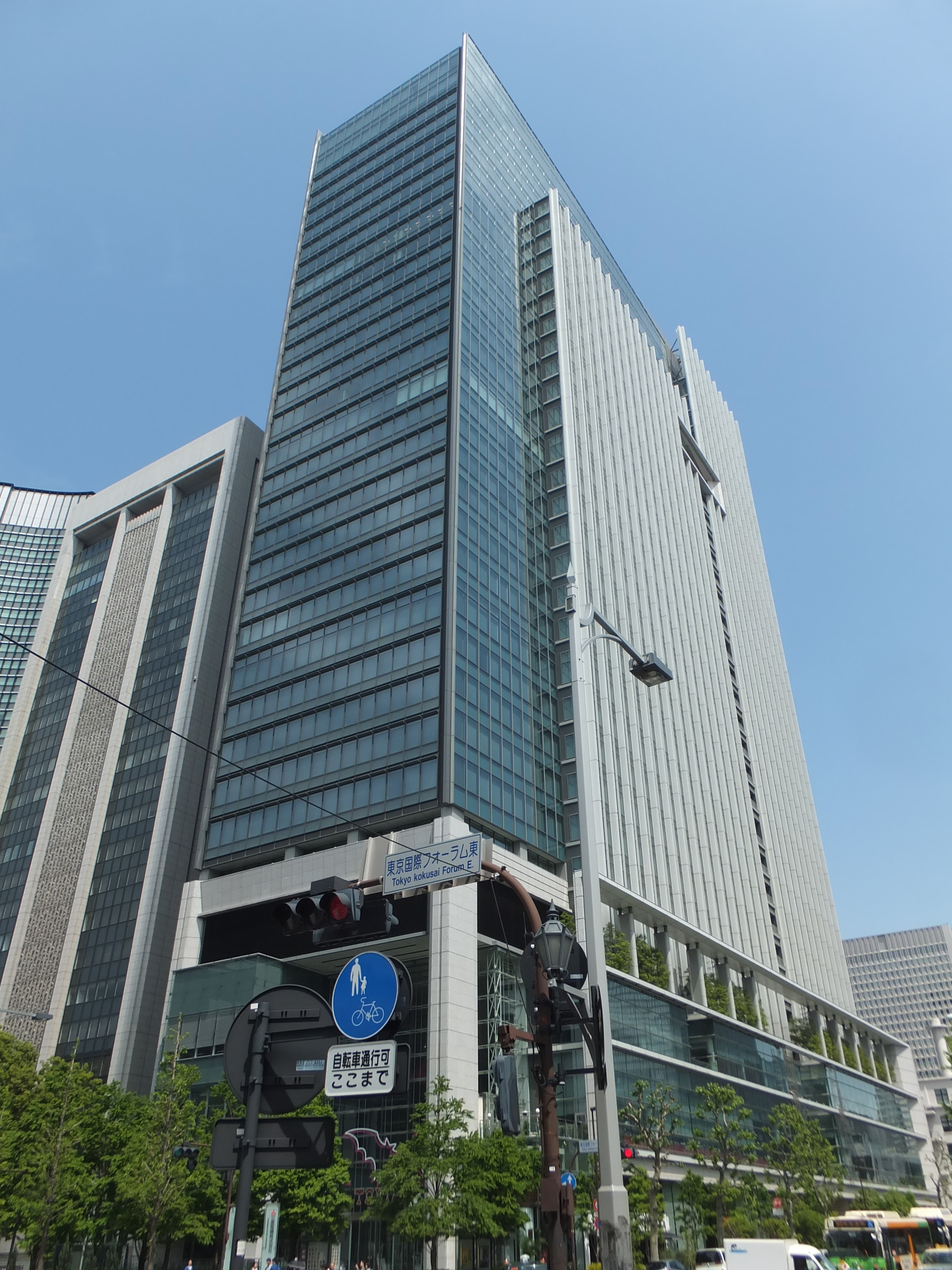 Tokyo Building (東京ビルディング), at 2-7-3 Marunouchi, Chiyoda, Tokyo, Japan